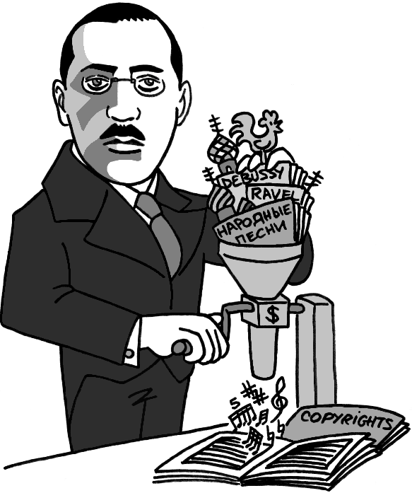 Caricature of Igor Stravinsky passing scores through the mill